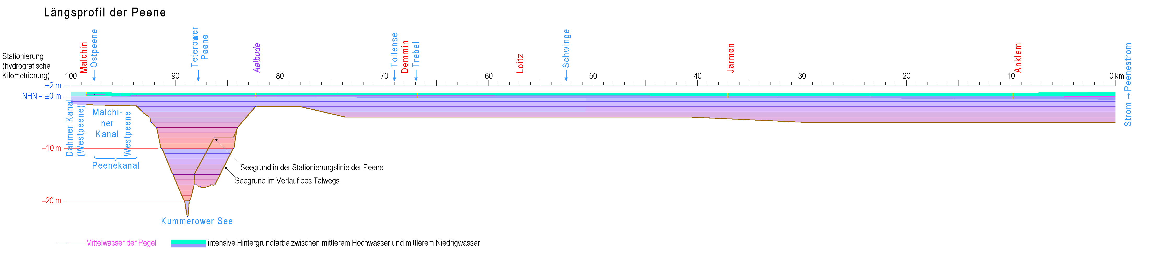 longitudinal profile of surface elevation and ground level of Peene river